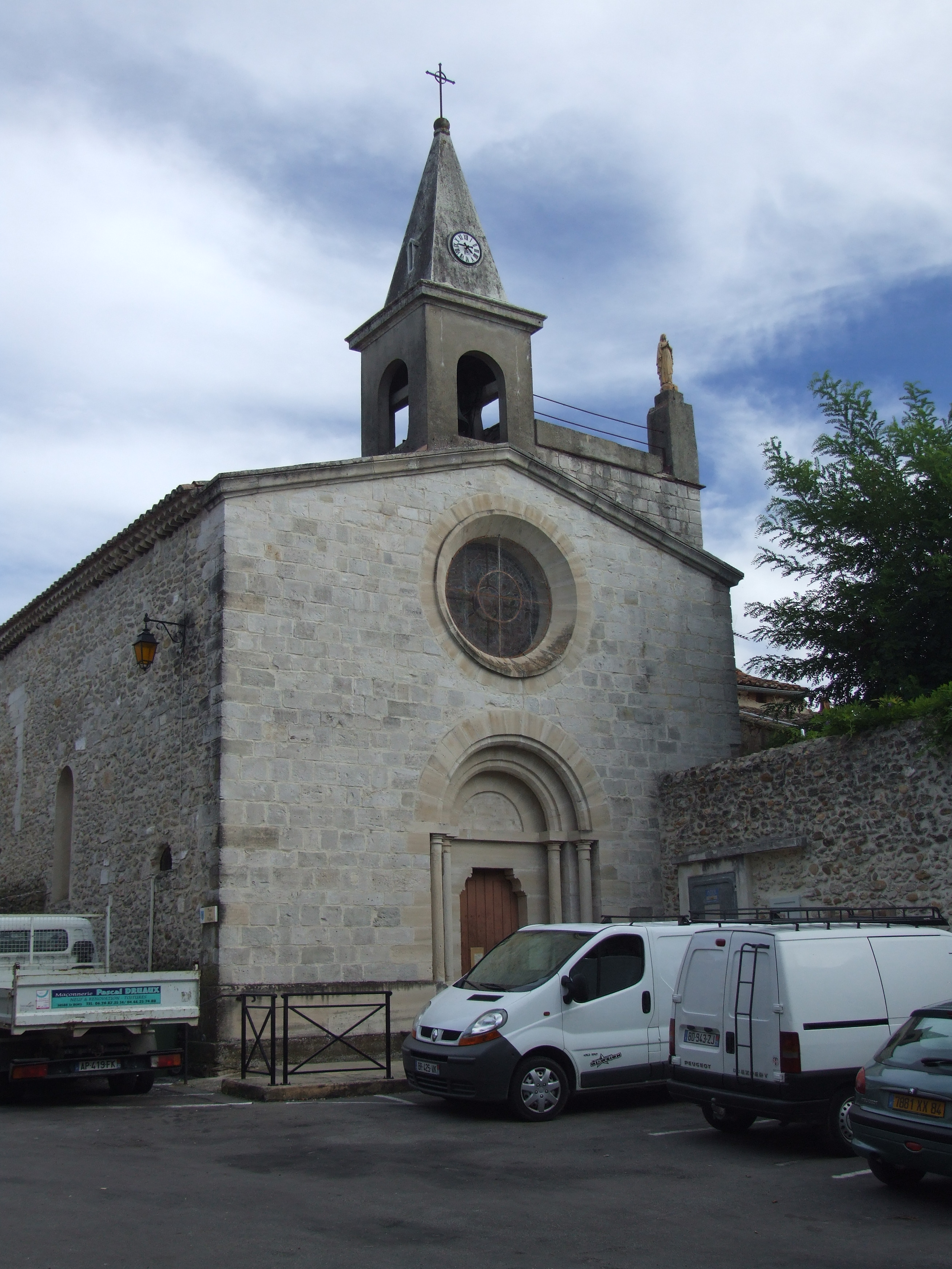 On the D51 betweenSt Amboix, Gard and Barjac, Gard is the commune of Saint-Denis, Gard.